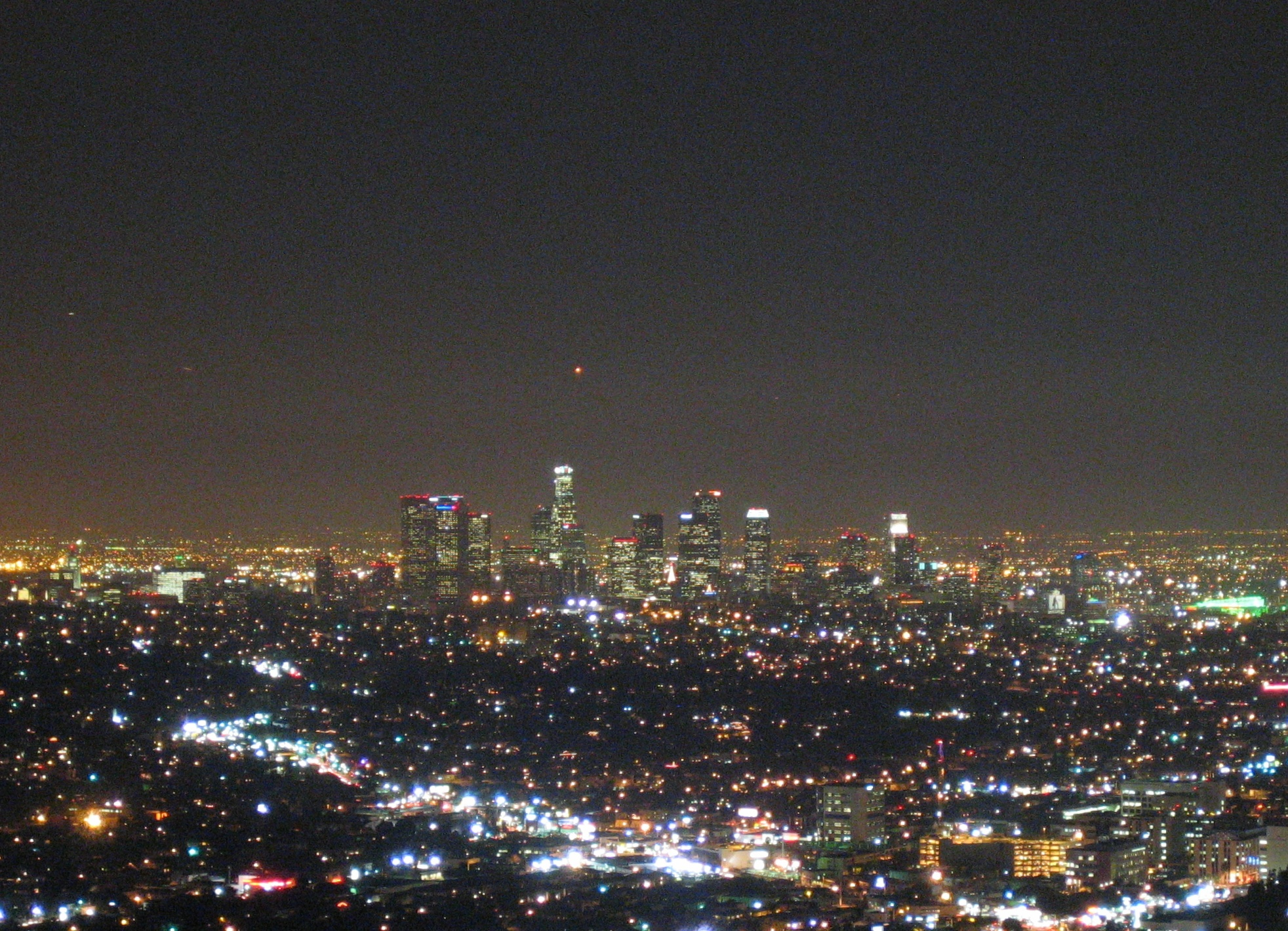 A view of Downtown Los Angeles at night from Griffith Observatory